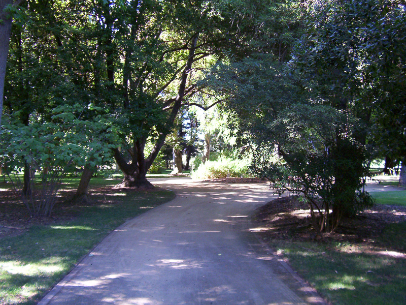 This is a picture of the Goethe Arboretum on the campus of Sacramento State University.